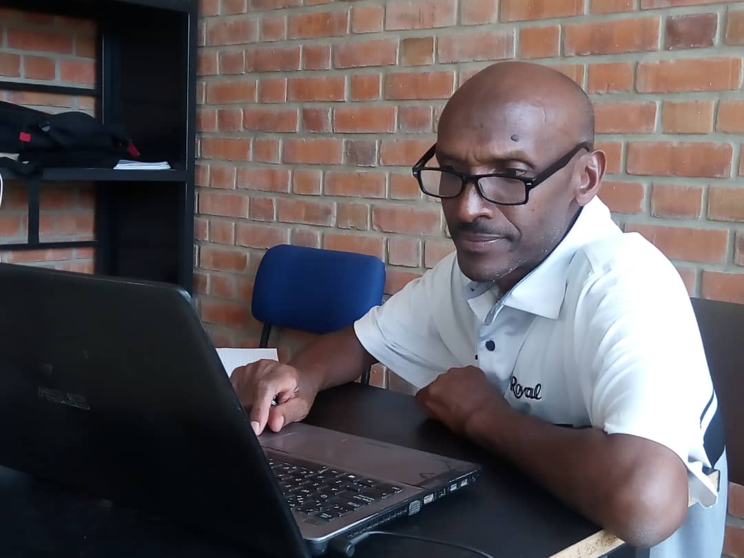 Professor Gaspard BANGEREZAKO